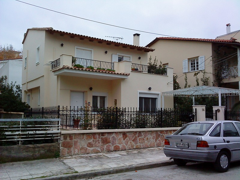 Paradeisos-Maroussi